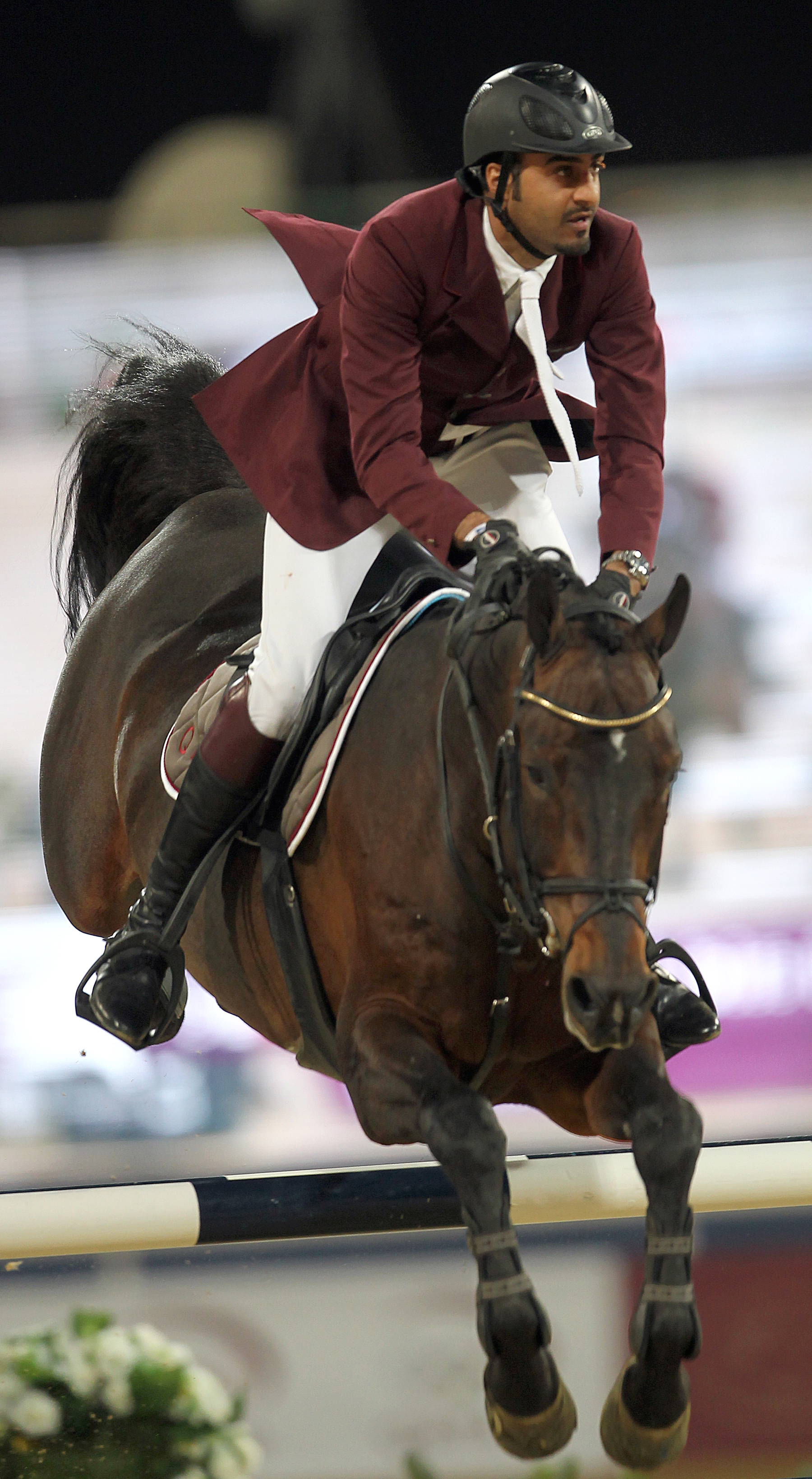 Qatari rider Sheikh Khalid bin Ali Al Thani during the opening leg of the 2012 Global Champions Tour in Doha. Horse: Whitaker, dark bay KWPN stallion, born 2003